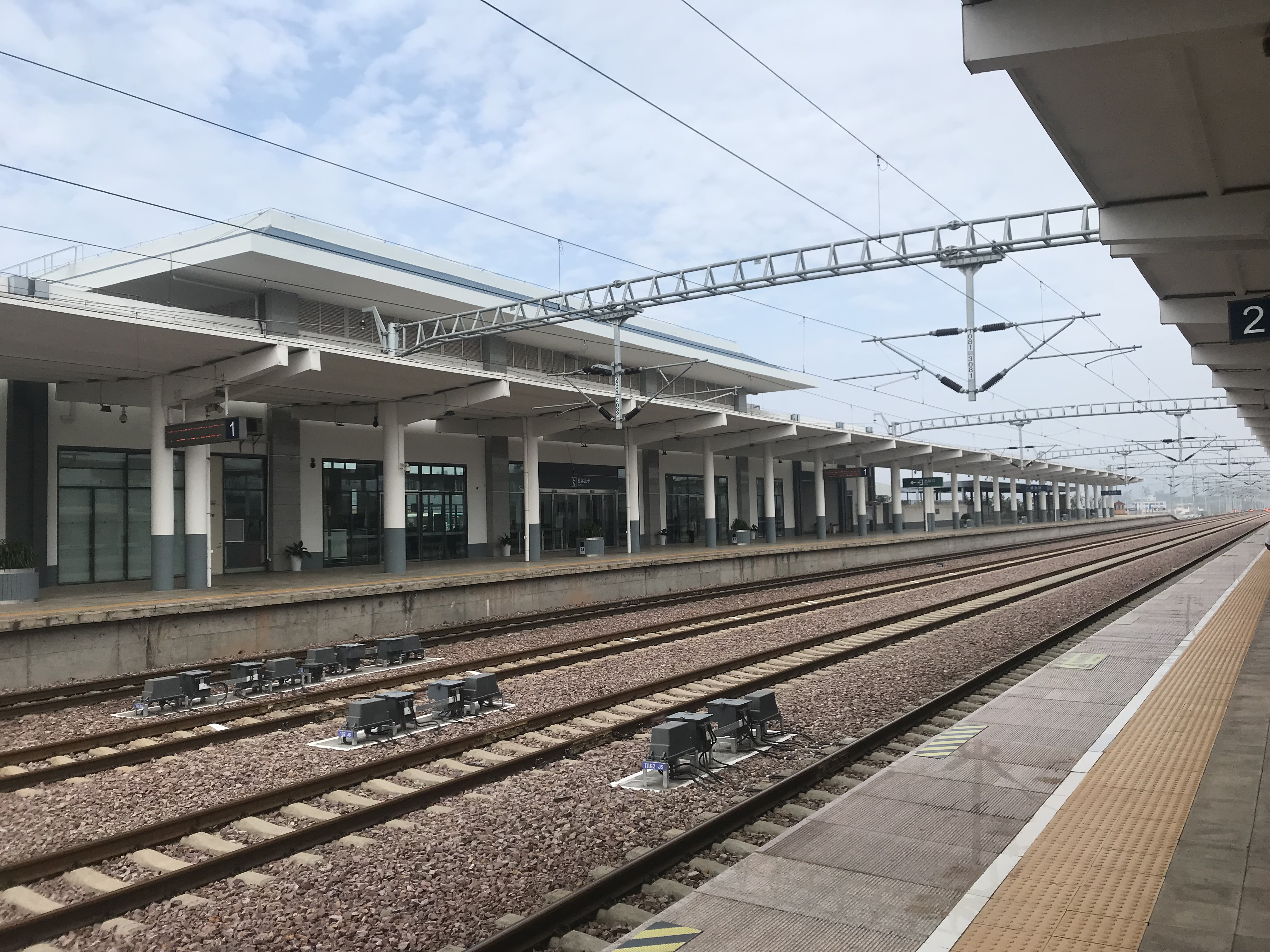 201908 Tracks at Guangtongbei Station Inbound Direction